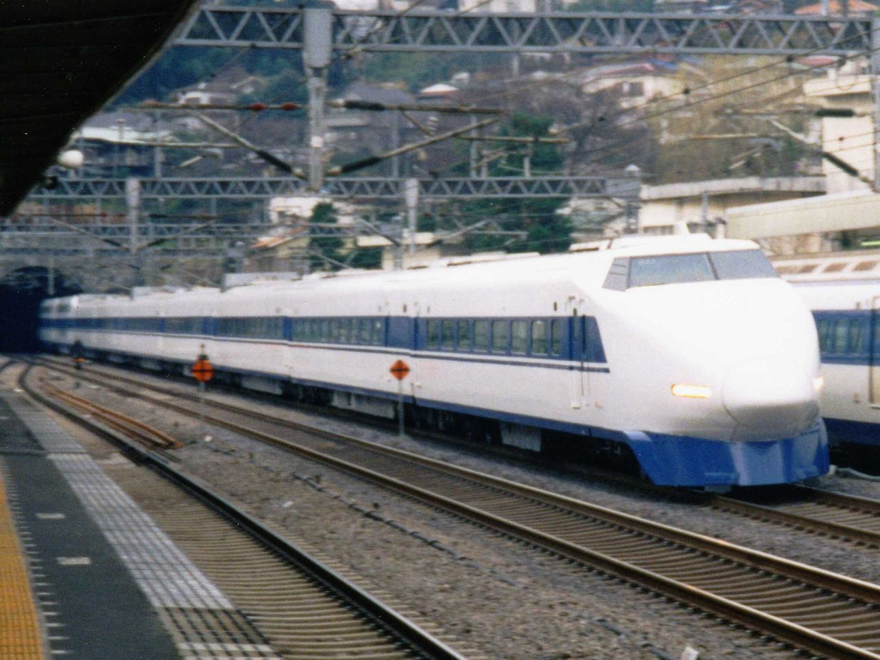 Pass at 220km / h to Odawara Station "light" super express (train Shinkansen Series 100)